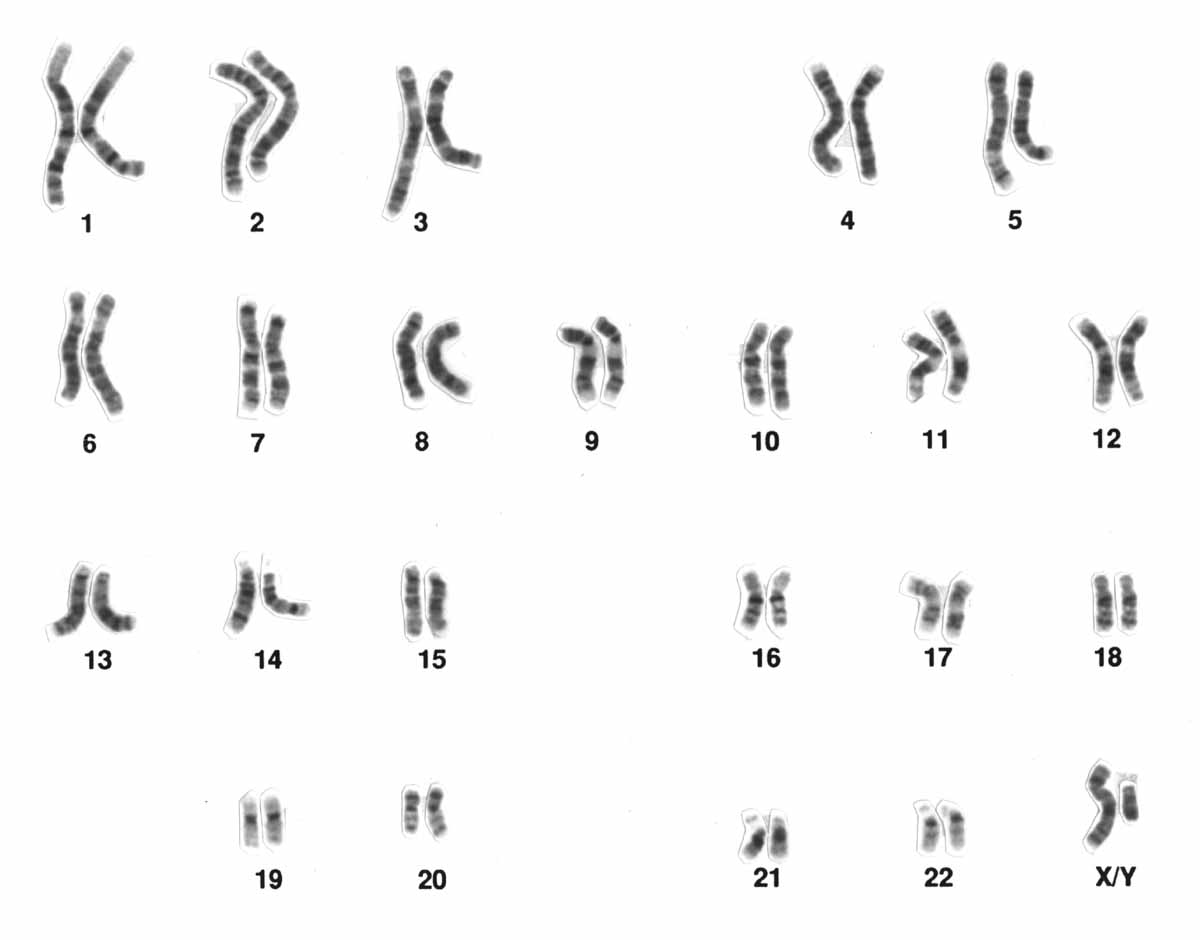 Human male Karyotype after G-banding.